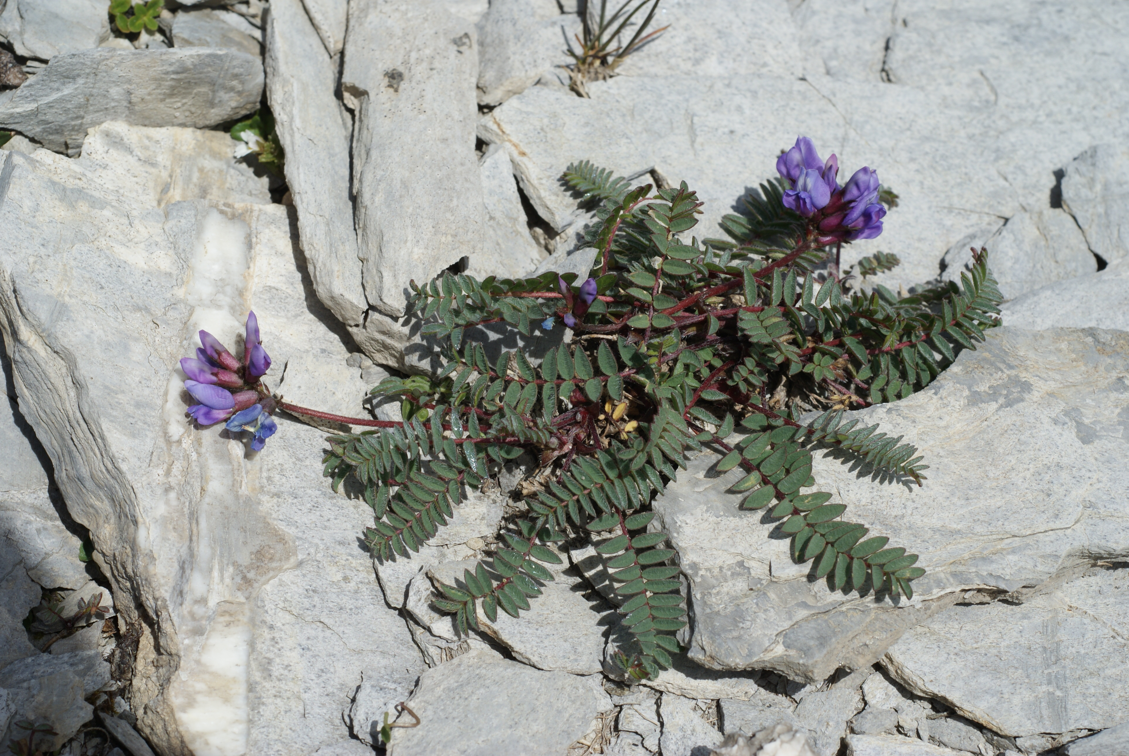 Plant (habitus) of Oxytropis jacquinii (Mountain Milk Vetch). Picture taken in the Rätikon mountain range which is shared by Austria, Liechtenstein and Switzerland.